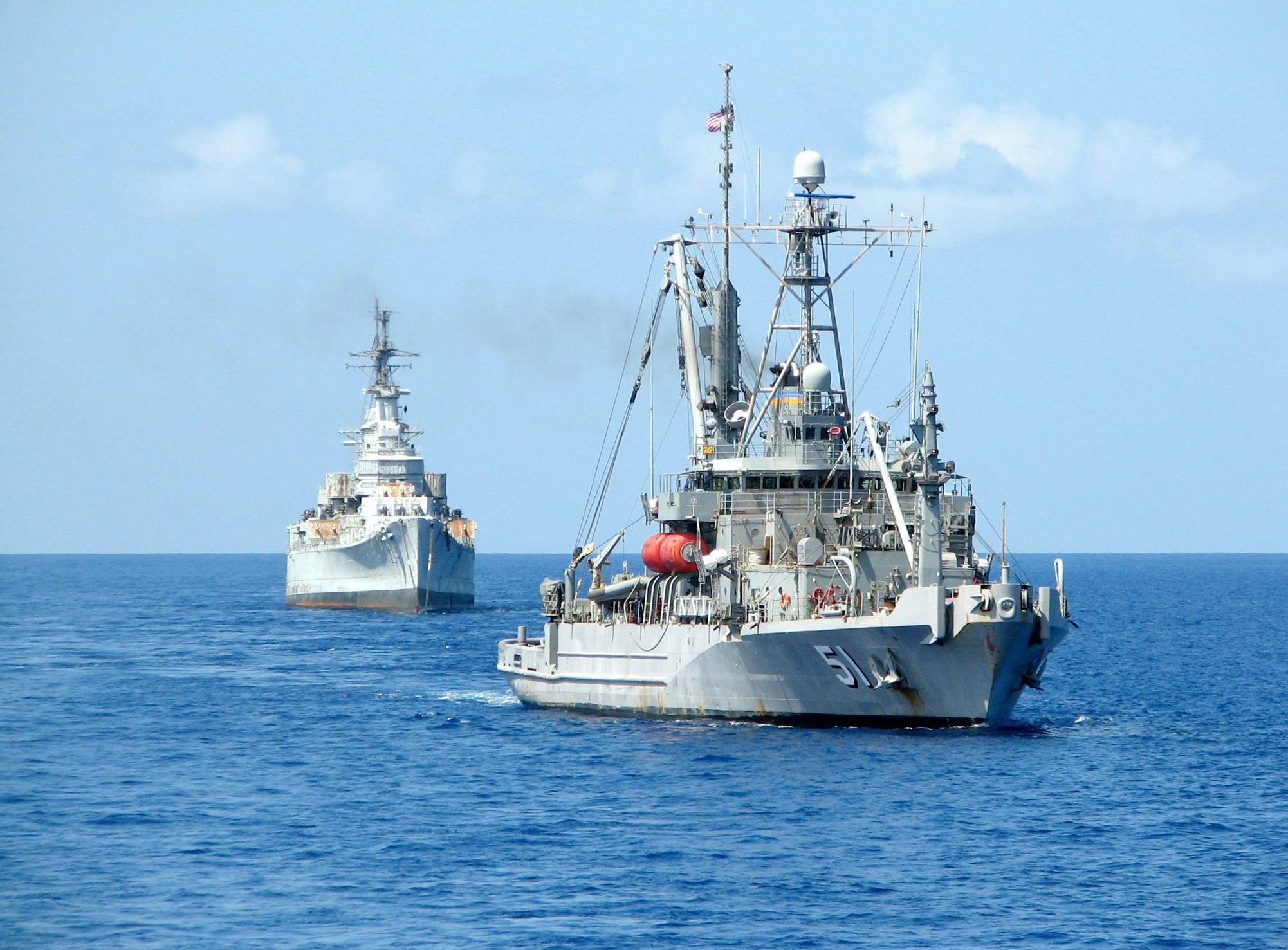 USNS Grasp (T-ARS-51) tows the decommissioned cruiser USS Des Moines (CA-134) from Phipadelphia, Pennsylvania (USA), to Brownesville, Texas (USA), for scrapping.